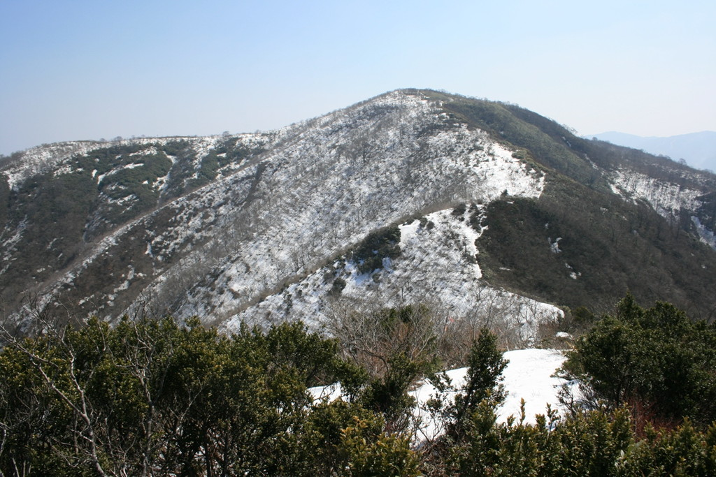 Mount Kanakuso from Mount Shirakura